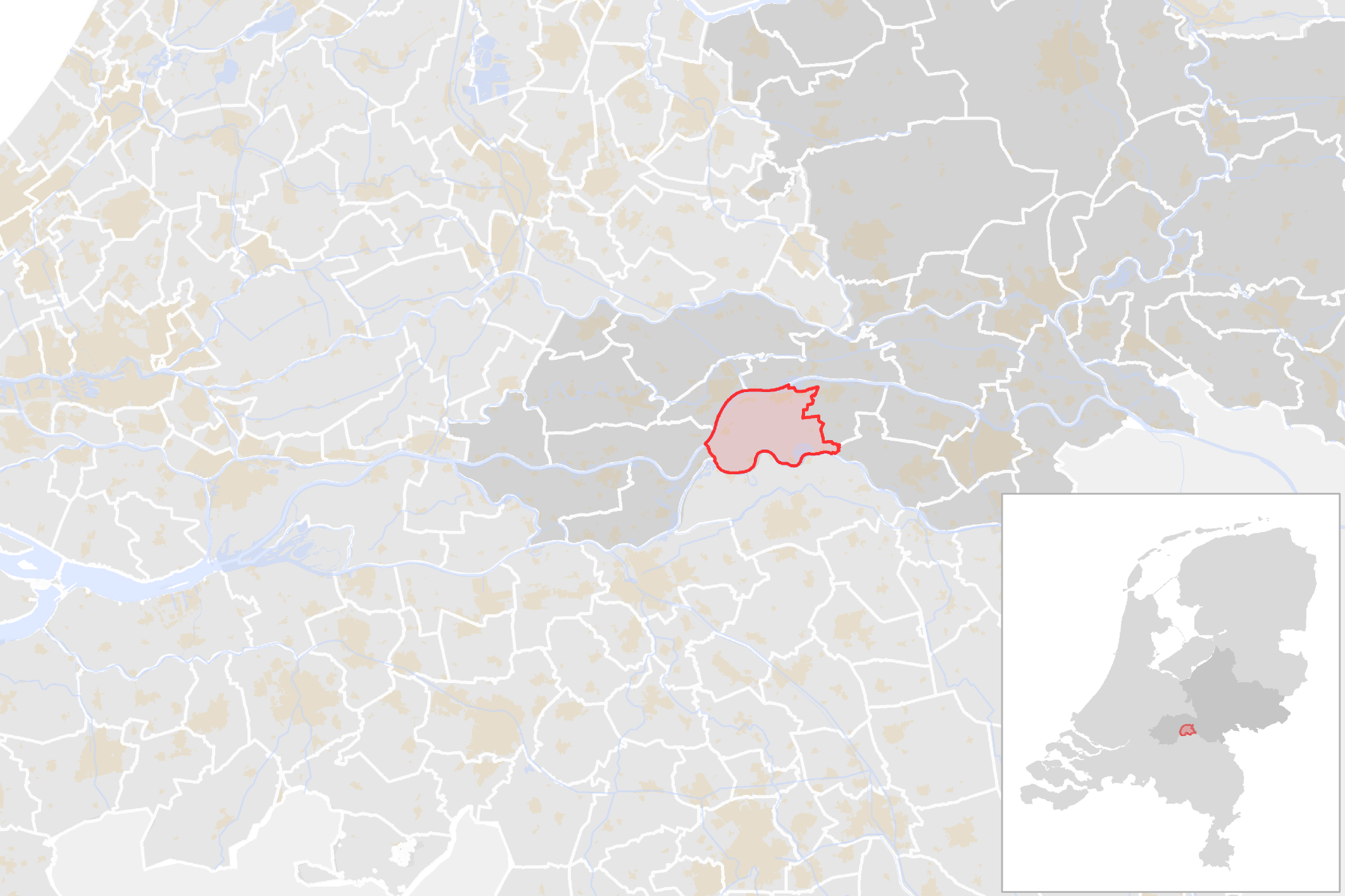 Locator map showing municipality boundary of one of the 390 Dutch municipalities (as of 2016)